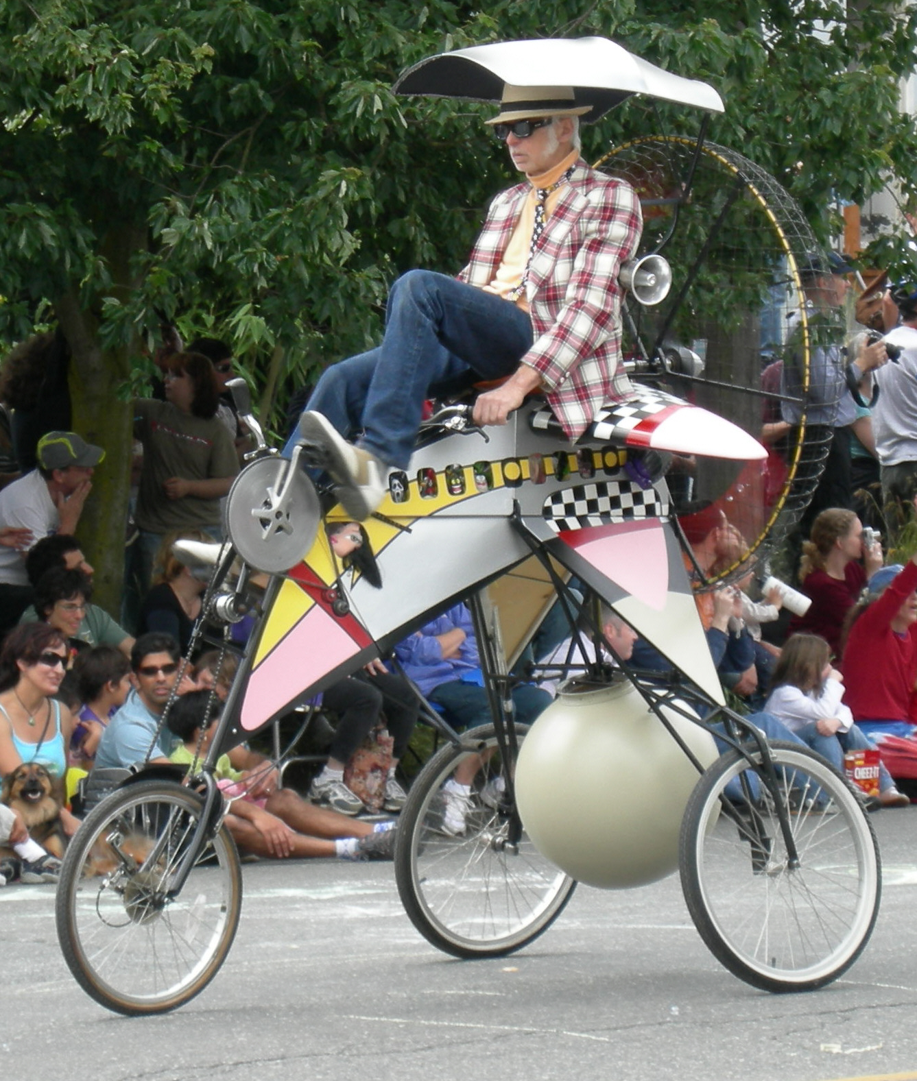 Large tricycle with an airplane motif, Summer Solstice Parade and Pageant, Fremont Fair, Seattle, Washington.